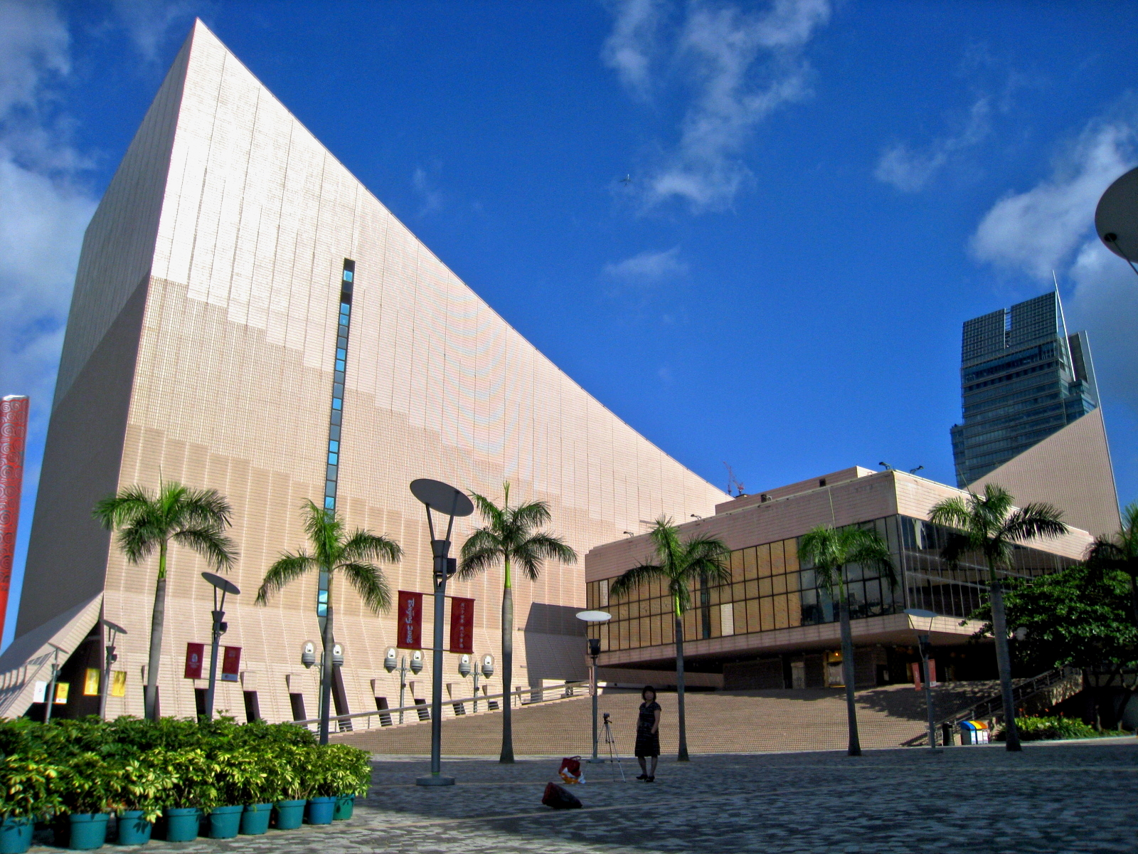 Hong Kong Cultural Centre 香港文化中心